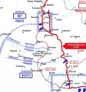 Hindenburg line on the Western Front before the Battle of Arras in April 1917, shown in solid red. Dotted red line shows frontline as it was before the German withdrawal to the Hindenburg Line in February 1917.